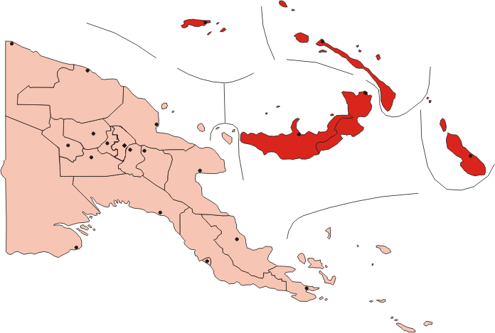 Locator map of Islands Region of Papua New Guinea